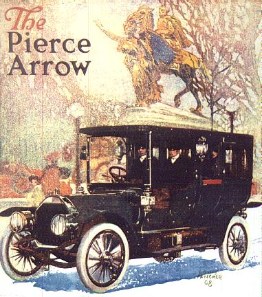 1908 advertisement for Pierce-Arrow automobile; artwork by Louis D. Fancher.